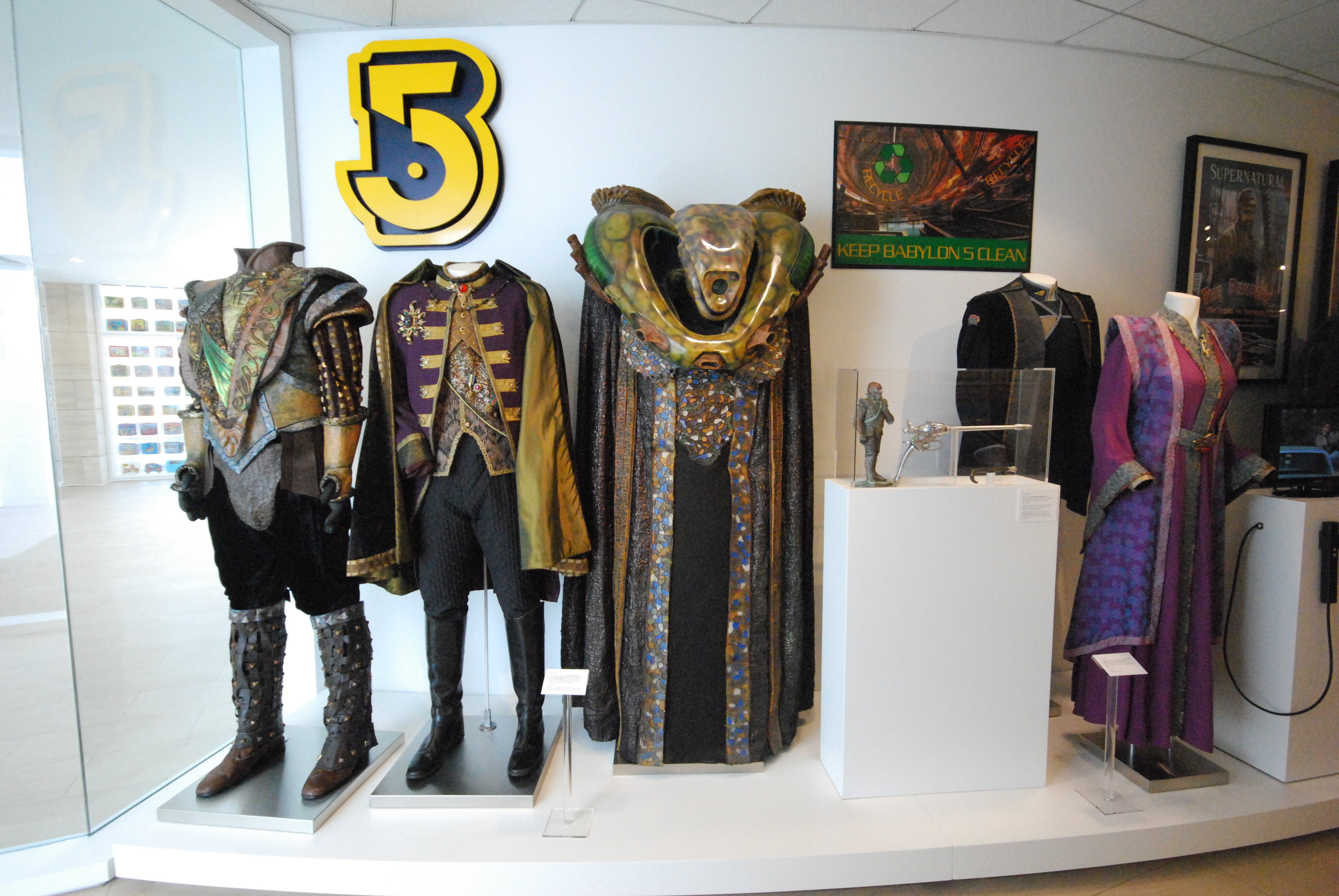 Paley Center for Media, 465 N Beverly Drive in Beverly Hills, Los Angeles, CA